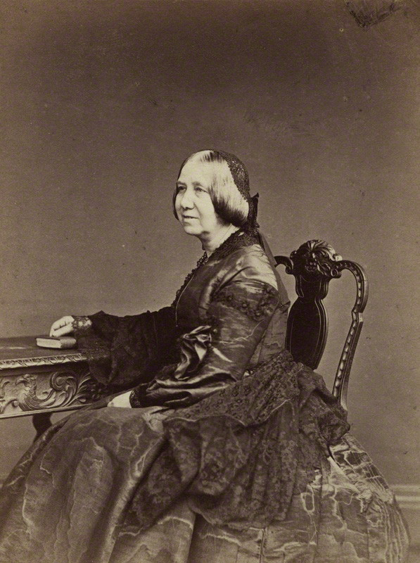 Portrait of Margaret Gillies (1803–1887), Scottish painter.